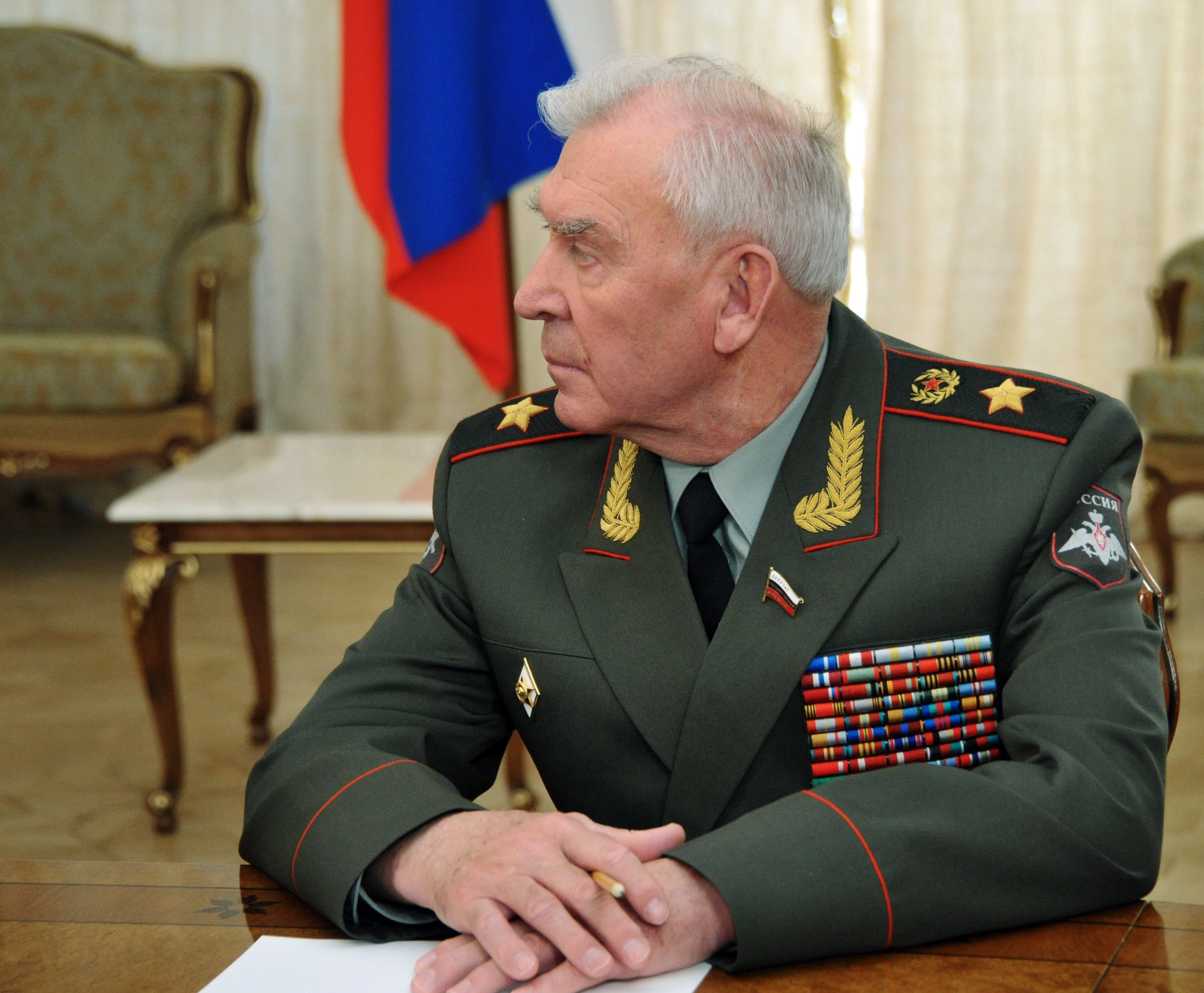 Chairman of the Council of the National Public Organisation of Russian Armed Forces Veterans Mikhail Moiseyev